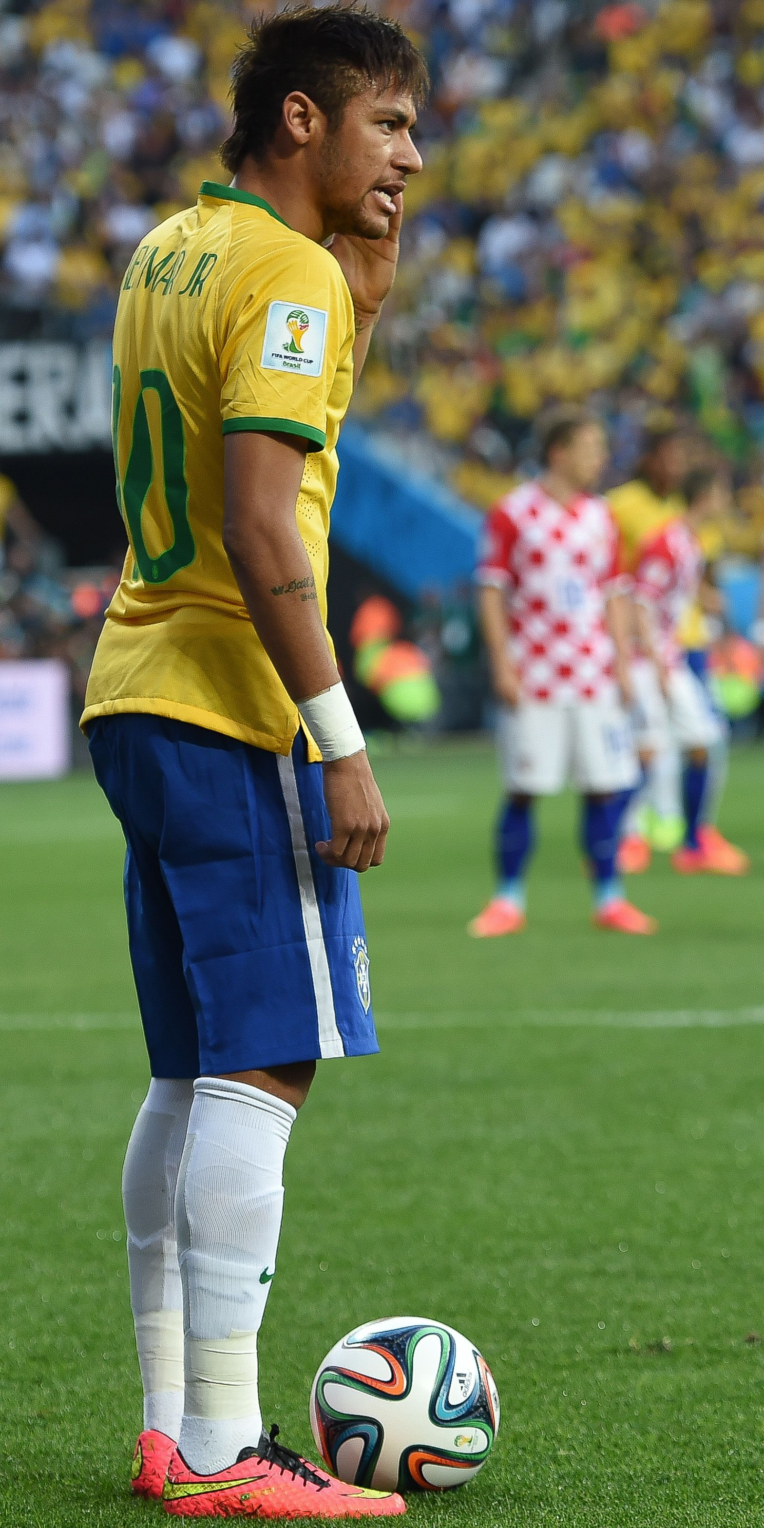 Neymar at the Brazil and Croatia match at the FIFA World Cup 2014-06-12.